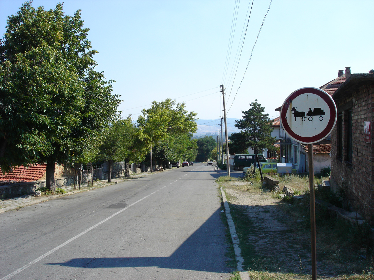 main road of Tvardica, Bulgaria, taken in August 2006